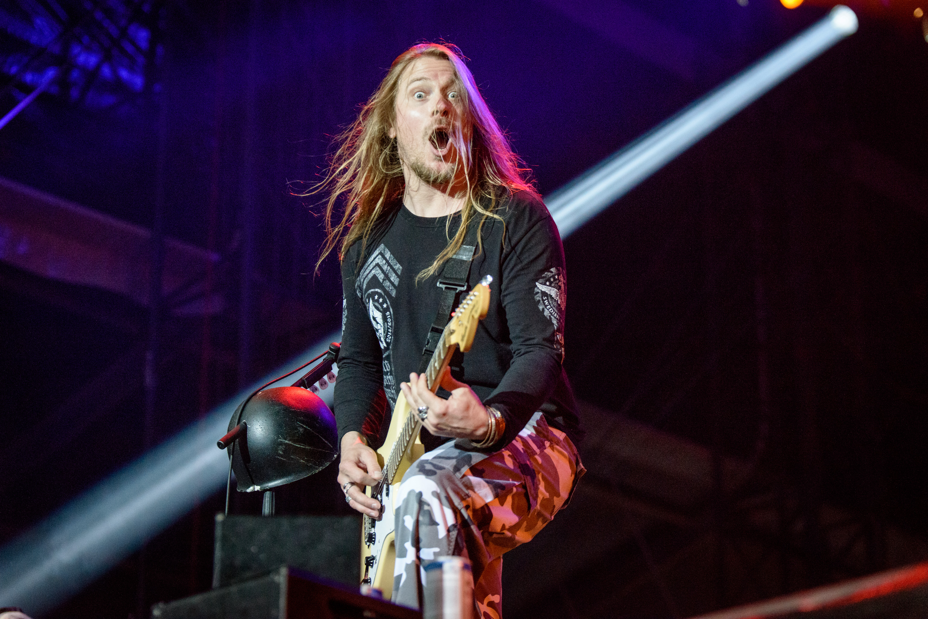 Sabbaton Live @ Rockavaria 2016